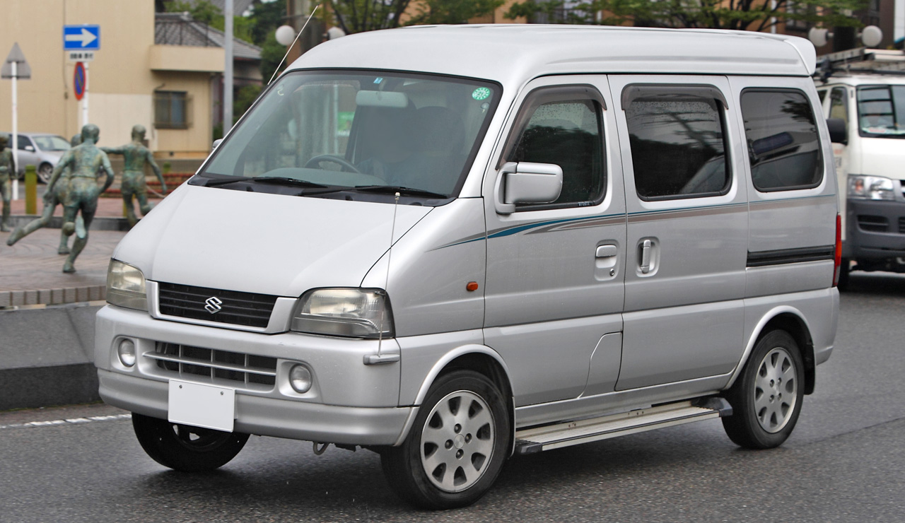 Suzuki Every +